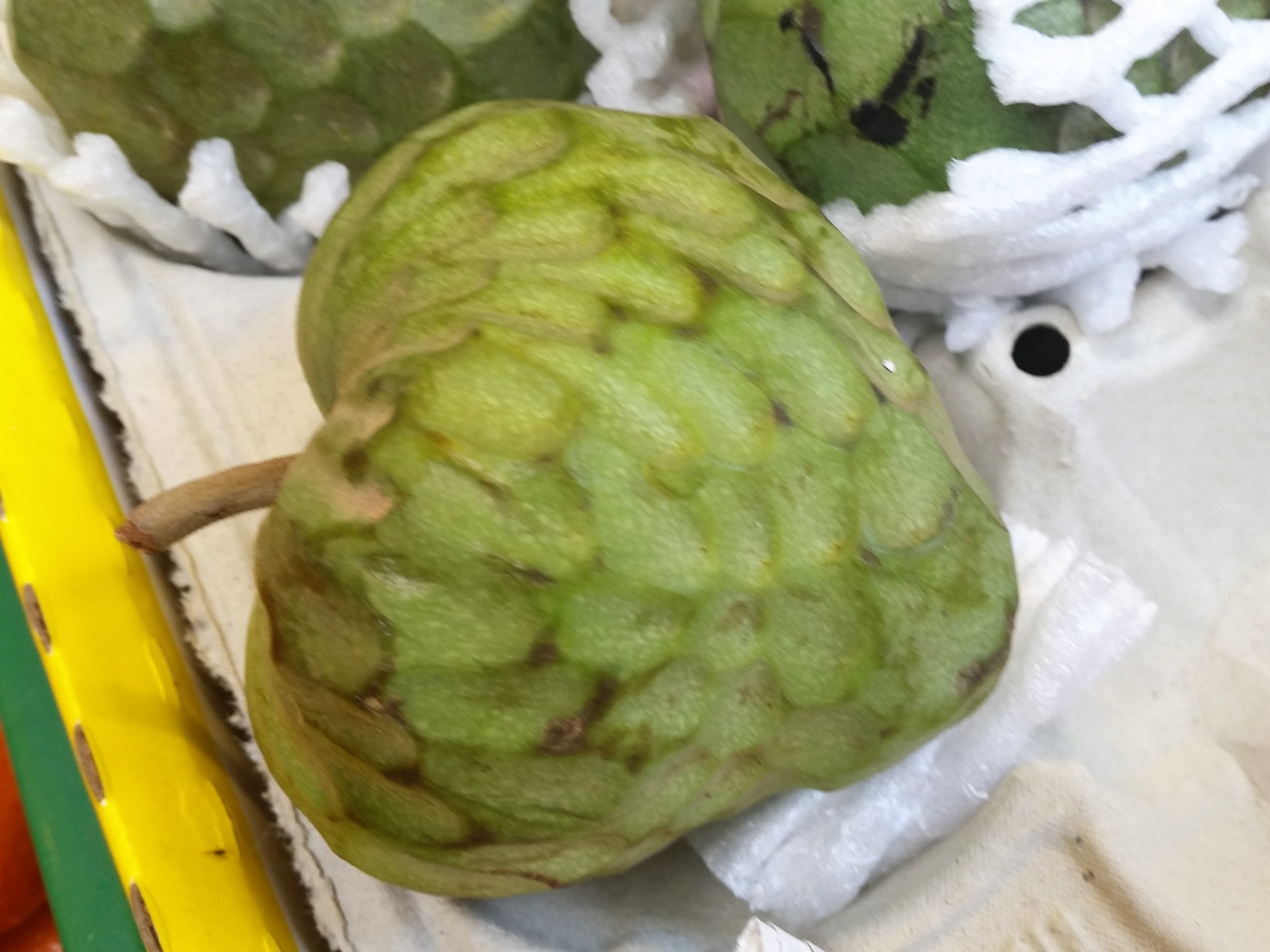 Cherimoya (Annona cherimola) fruits in a market, in London, England.